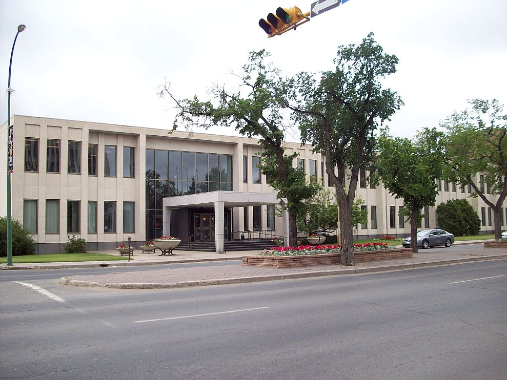 Regina Courthouse